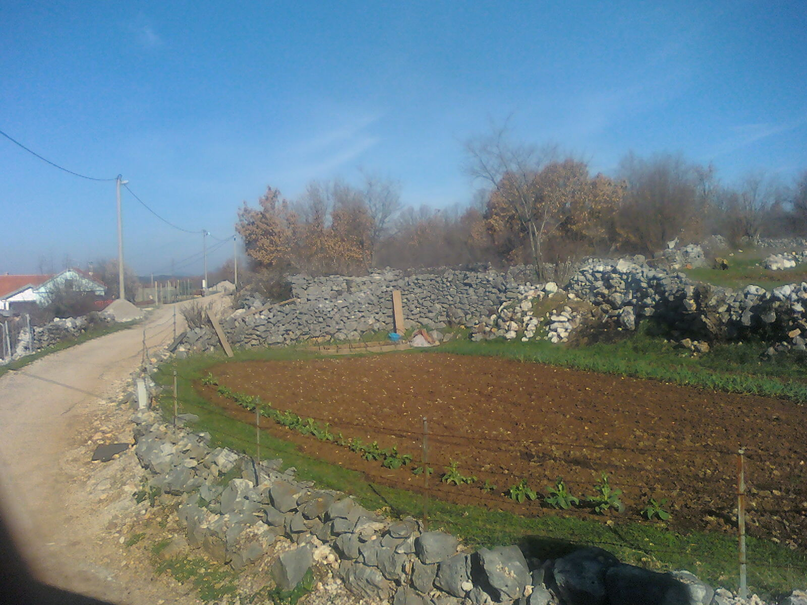 stanojevici